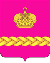 Coat of arms of Olginskaya, Primorsko-Ajtarsk Raion, Krasnodar Krai, Russia